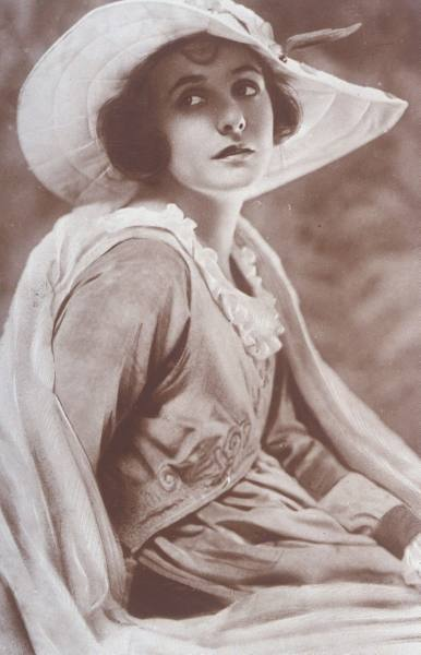 Portrait of actress Norma Talmadge (Location: United Kingdom)